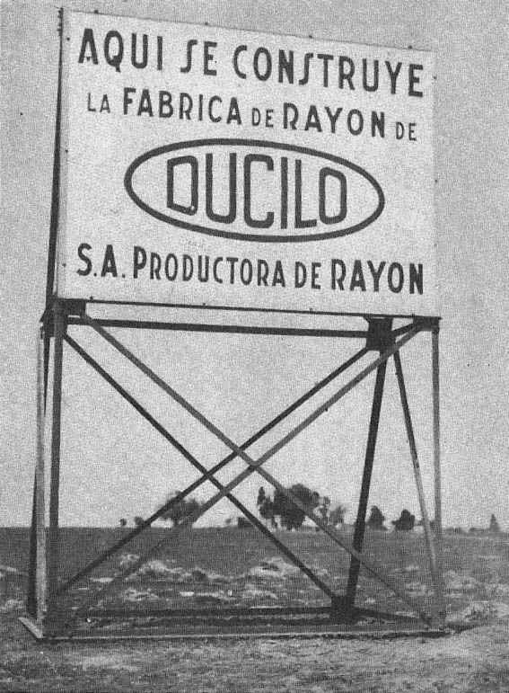 Signage announcing the inauguration of an industrial plant by Ducilo, the Argentine filial of DuPont